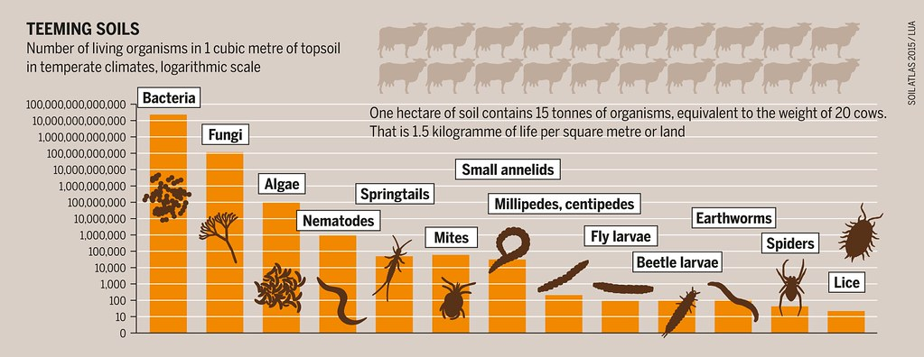 Amount of various organisms in topsoil using a bar graph.